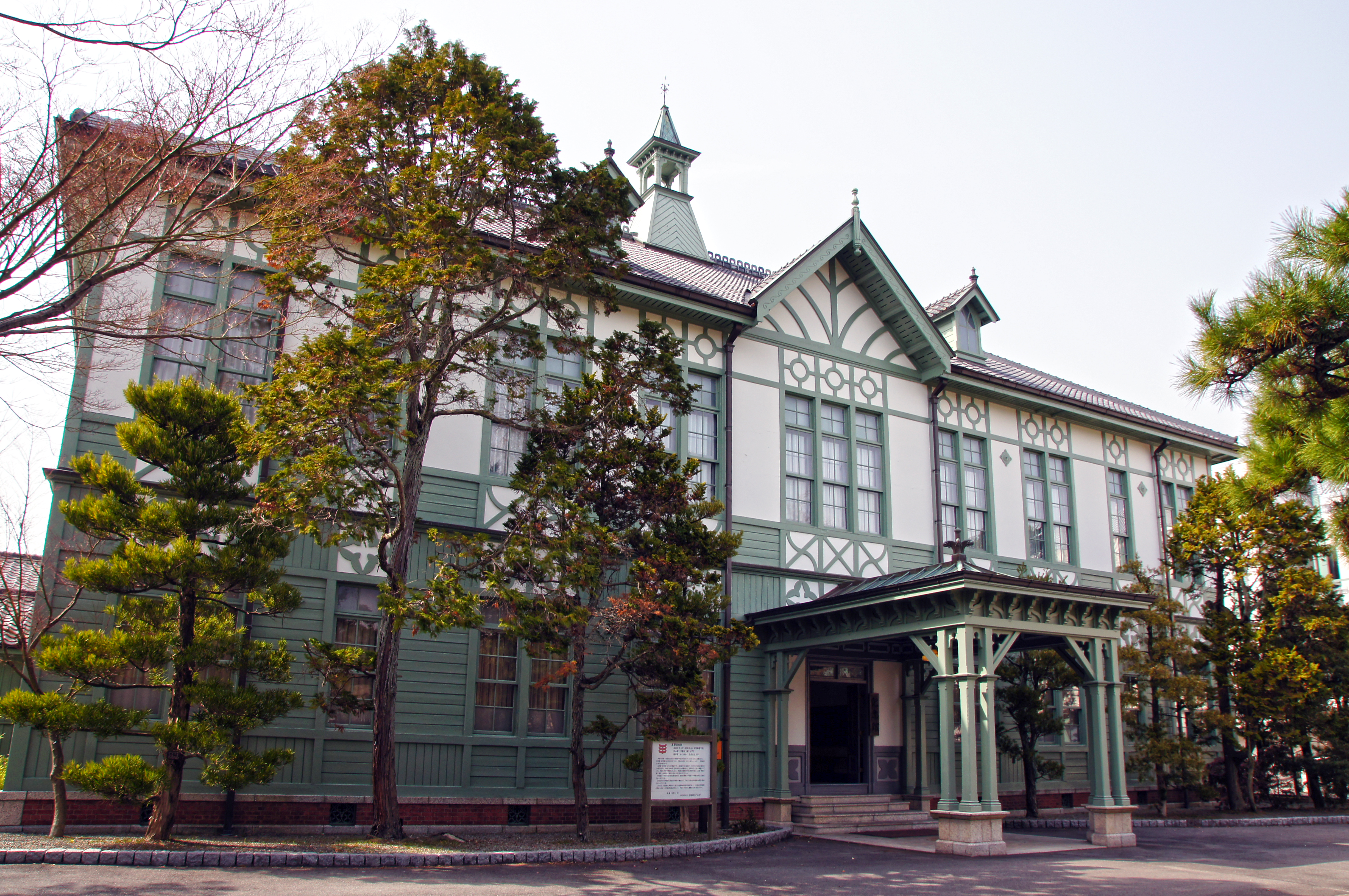 Nara Women's University in Nara, Nara prefecture, Japan.